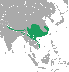 Yellow-bellied Weasel (Mustela kathiah) range